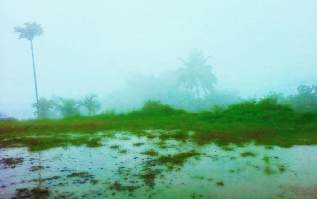 Mansoon